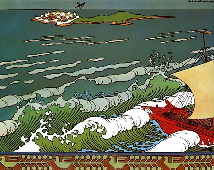 Illustration to Alexander Pushkin's The Tale of Tsar Saltan